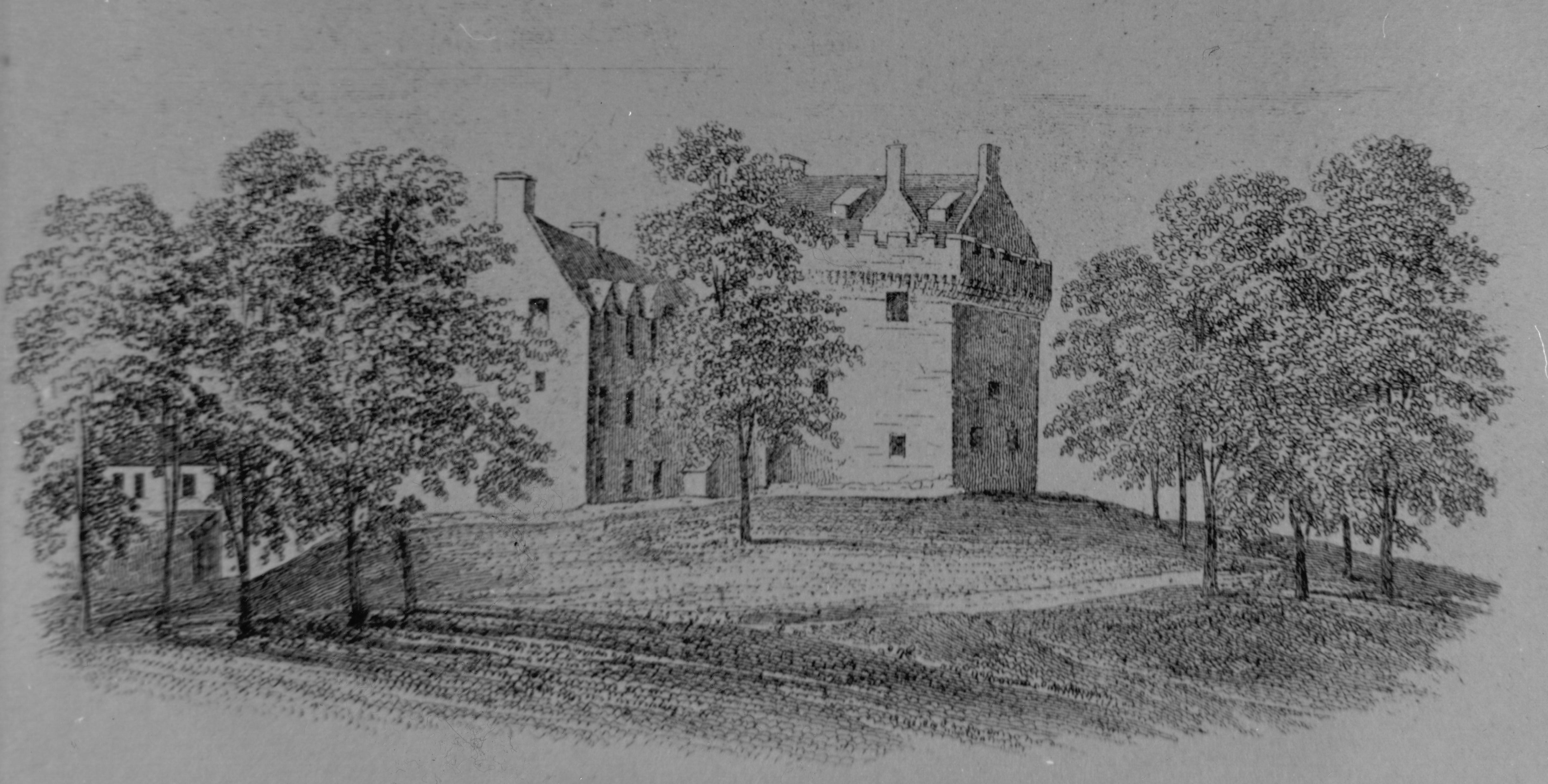 Eglintoune castle from the west; prior to the rebuild of 1802. From an old print circa 1840.